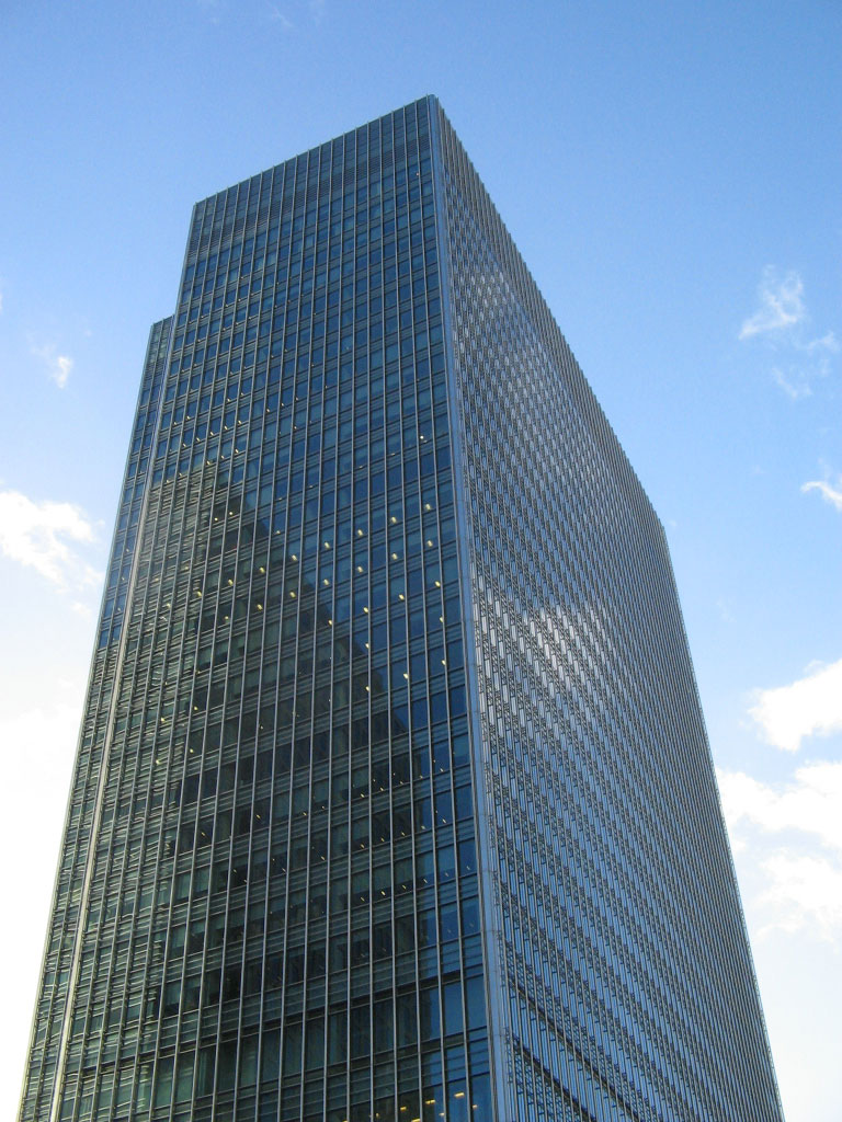 25 Bank Street, Canary Wharf, London